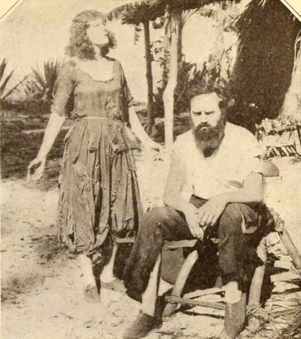 Still from the American drama film The Woman God Changed (1921) with Seena Owen and E.K. Lincoln, on page 57 of the August 1921 Photoplay.